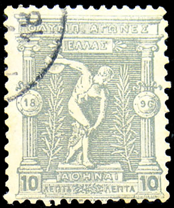 Stamp of Greece, The First Olympic Games, 1896, 10 l.